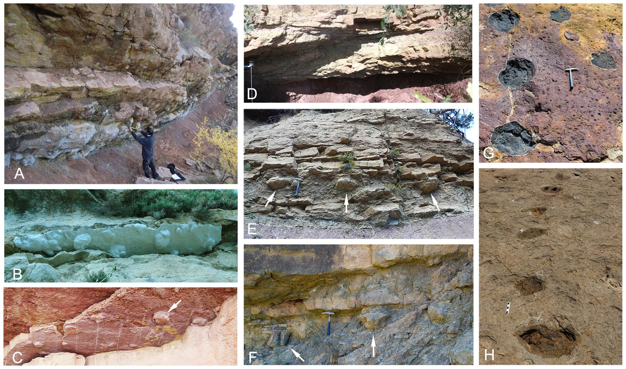 Ichnofossils in the Tremp Formation Page 7 of: Vila, Bernat (2013). "The Latest Succession of Dinosaur Tracksites in Europe: Hadrosaur Ichnology, Track Production and Palaeoenvironments". PLoS One 8: 1–15. Retrieved on 2018-05-24.